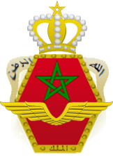 Royal Moroccan Air Force Insignia by Amine Ouhammou